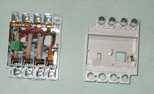 inside of a Residual Current protective Device